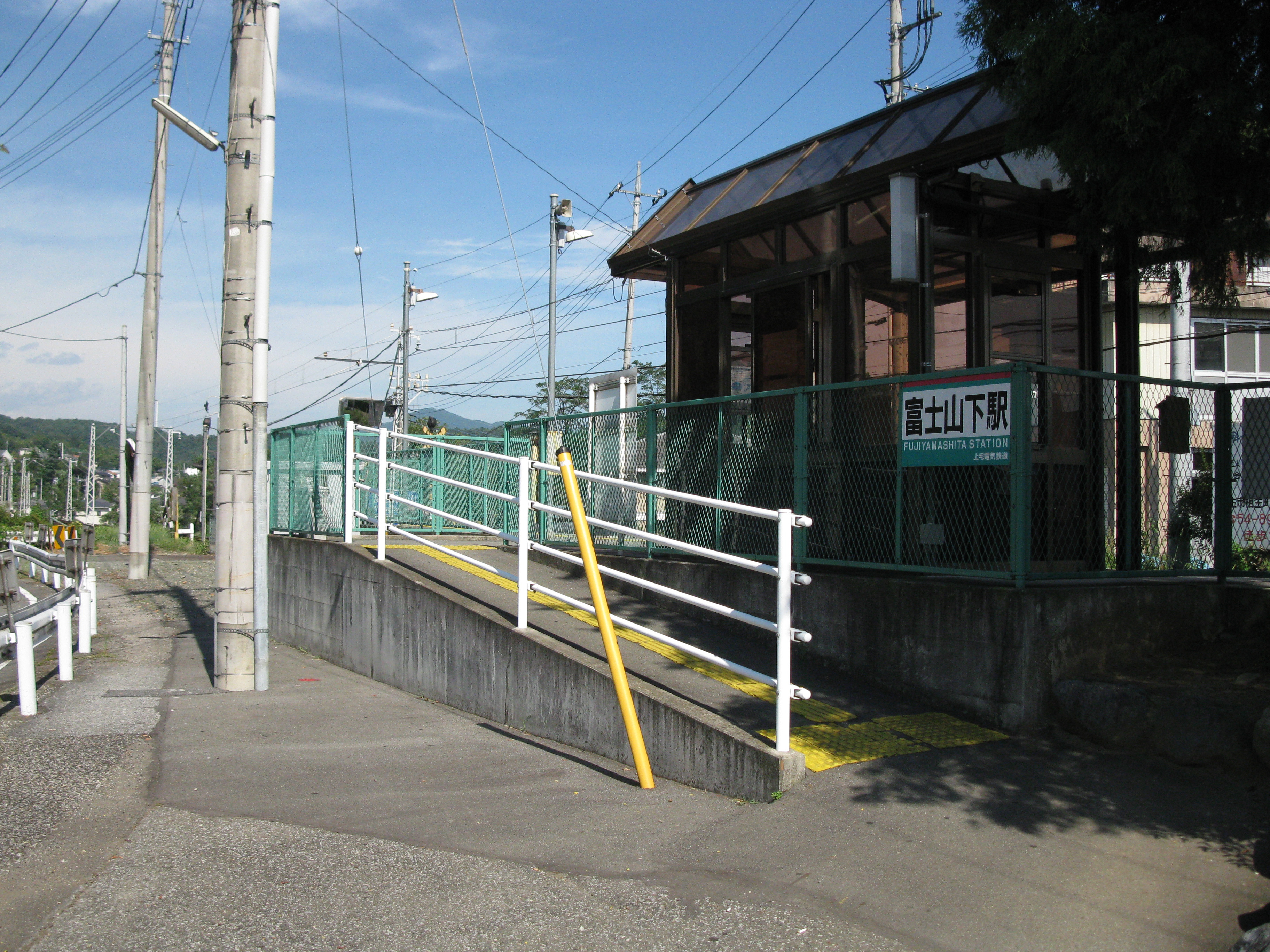 Fujiyamashita Station entrance (Jōmō Electric Railway Company Jōmō Line)